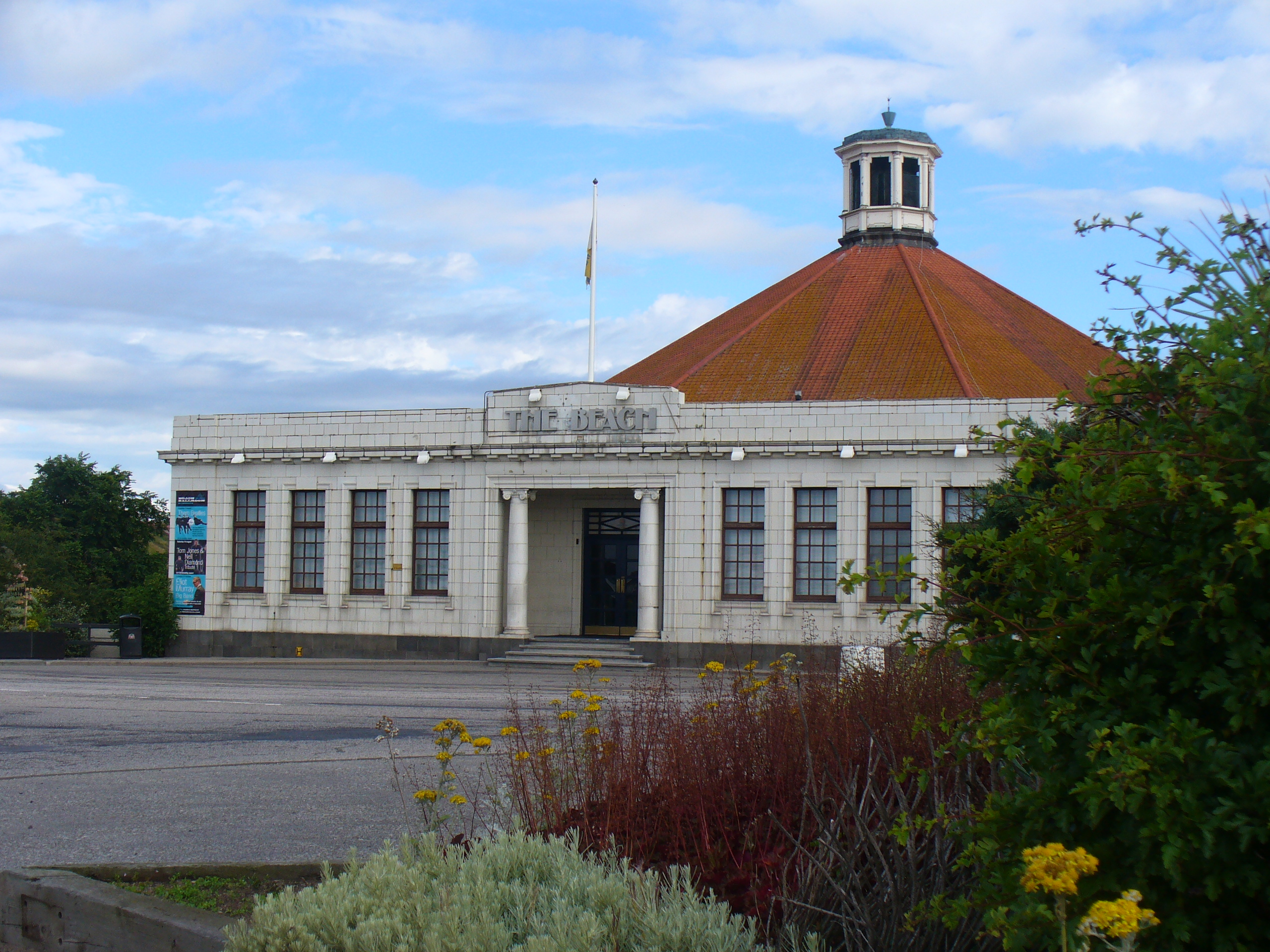 Beach Ballroom